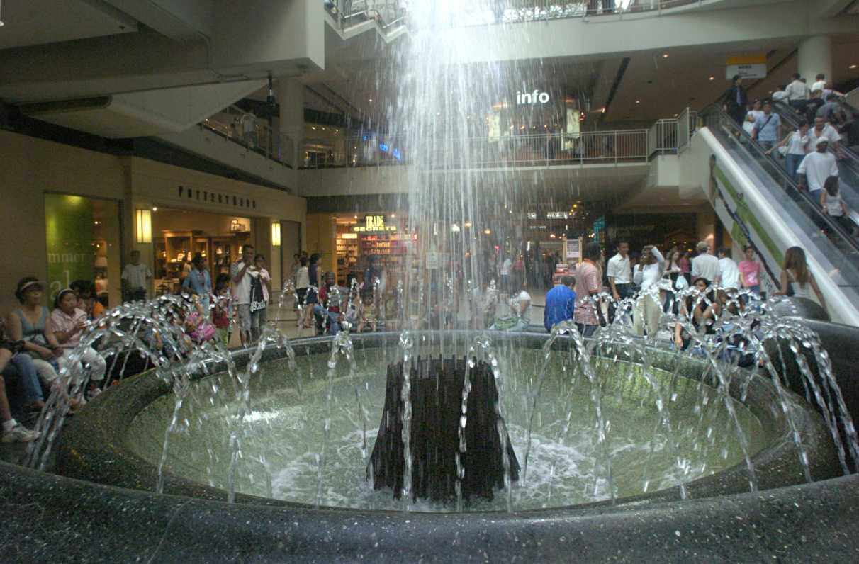 Eaton's Center fountain is in the lowest level basement (across Yonge Street from Dundas Square), but receives a large quantity of natural light from space that opens upwards. The large bowl fills up and then spurts straight up to a height of approximately 10 meters.